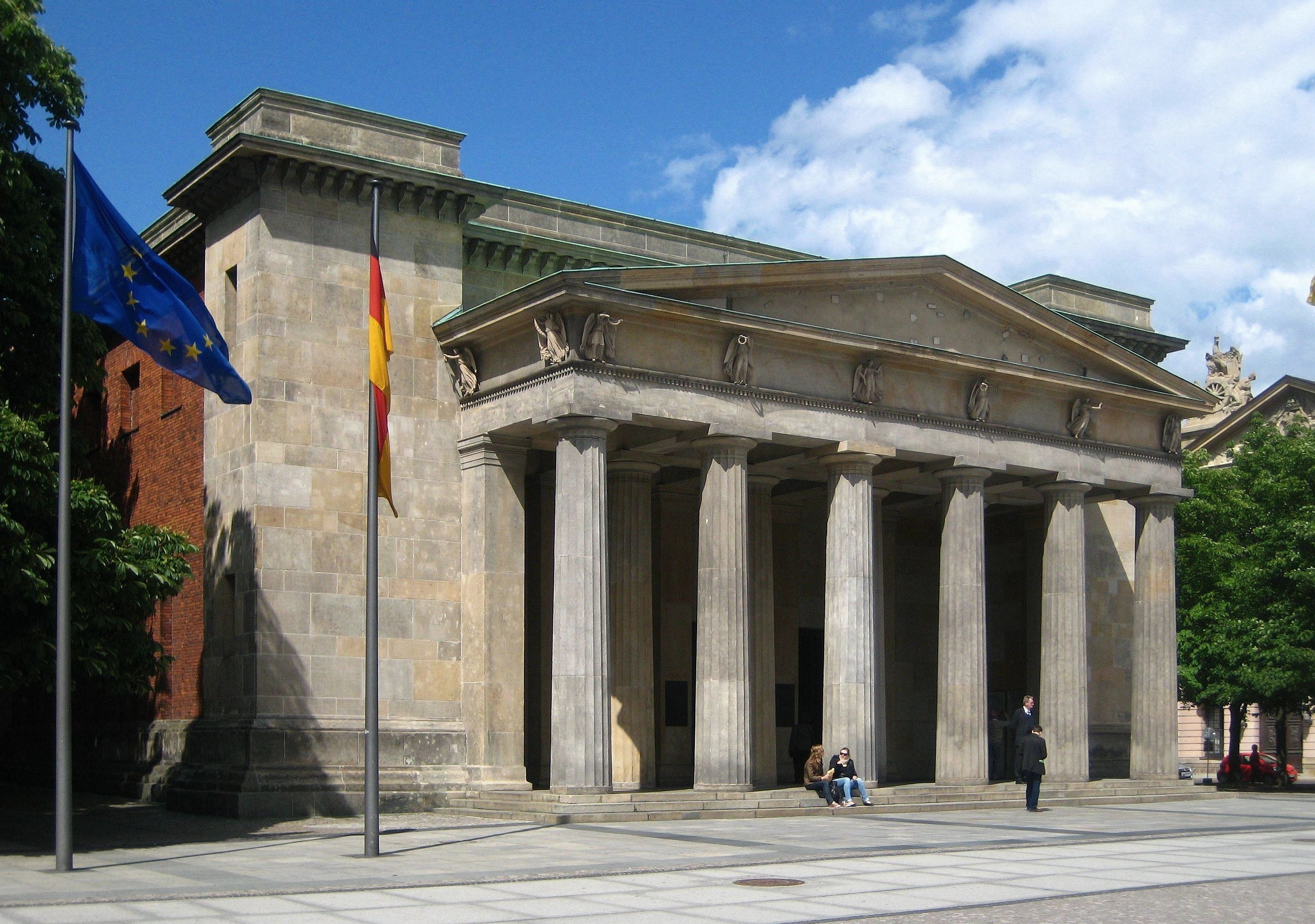 The New Guard House (Neue Wache), 1816-1818 by Karl Friedrich Schinkel; since it serves as the "Central Memorial of the Federal Republic of Germany for the Victims of War and Tyranny".